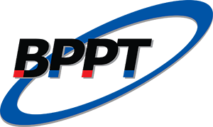 Logo of Agency for the Assessment and Application of Technology (Indonesia)